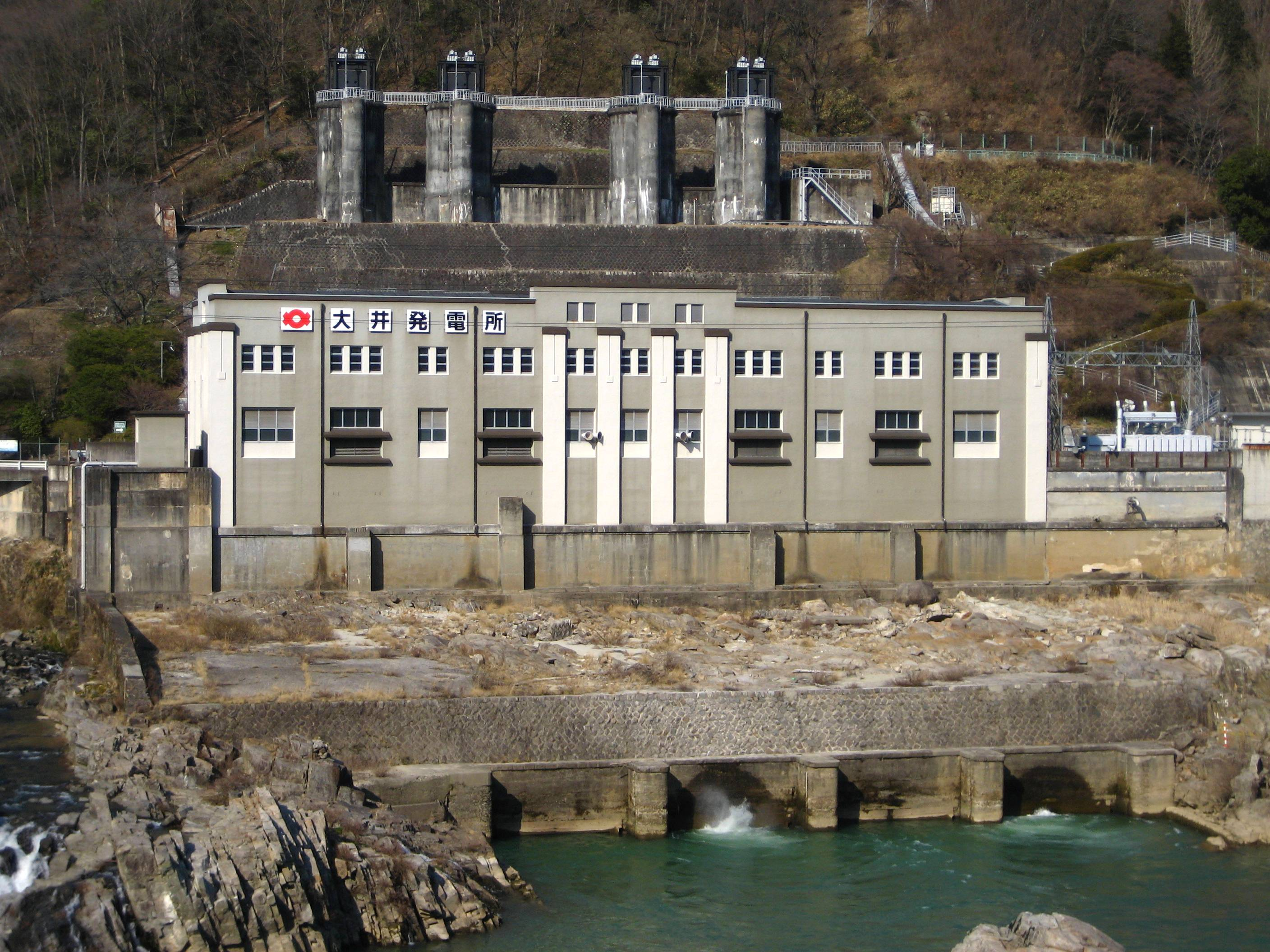 Ōi power station.